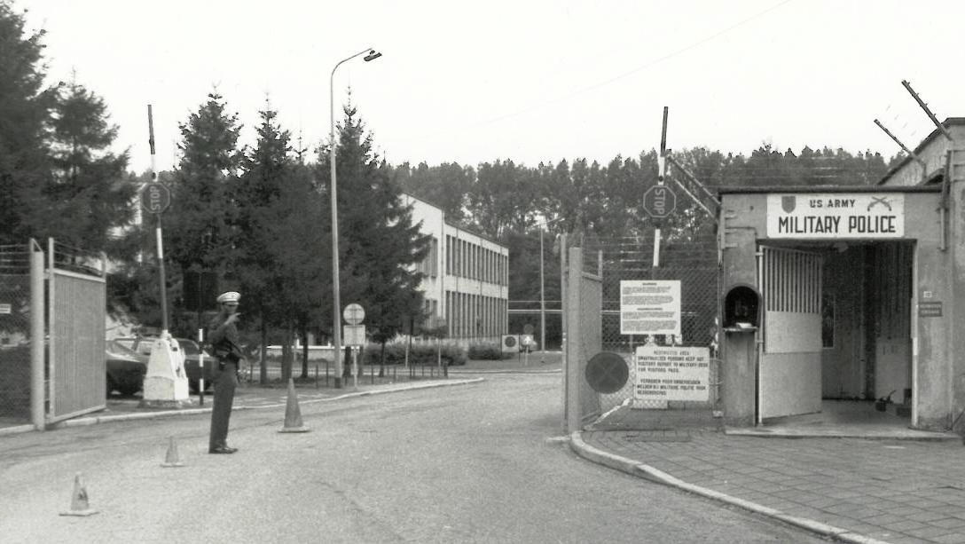 The old gate: In a photo taken around 1969, a Soldier waves someone into visit the headquarters of the U.S. Army Military Community, The Netherlands.